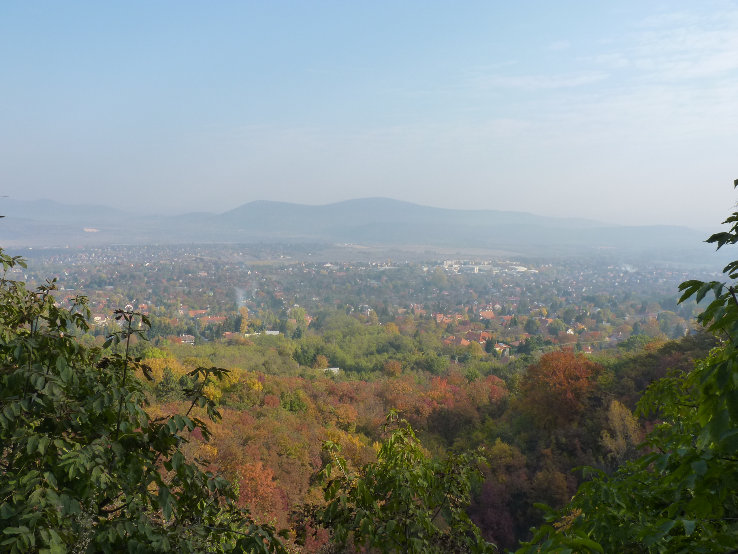 View of Solymár from Solymár Cave